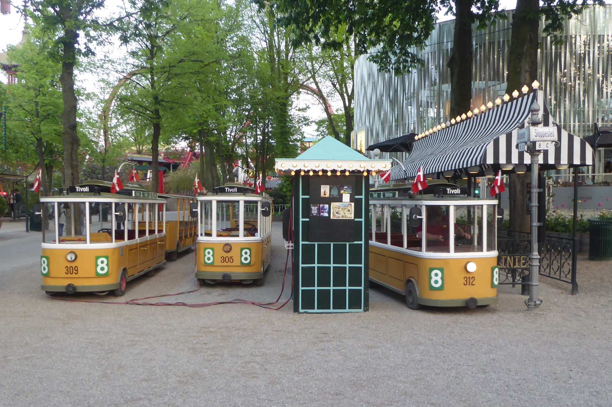 The "trams" on the ride Linie 8 in the amusement park Tivoli in Copenhagen.